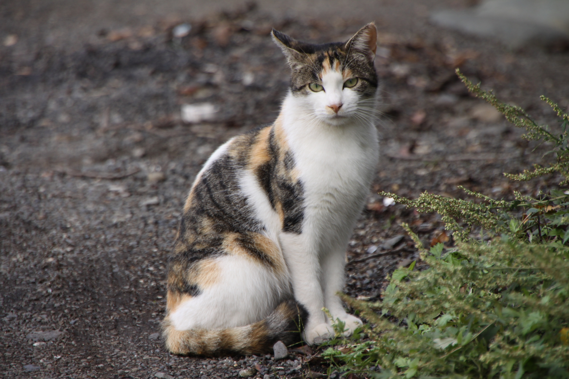 A stray calico cat near Sagami River, Honshu, Japan